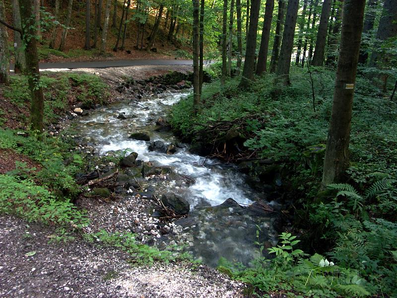 River Kleśnica in nature reserve (tributary of Morawka, Lower Silesia, Poland).